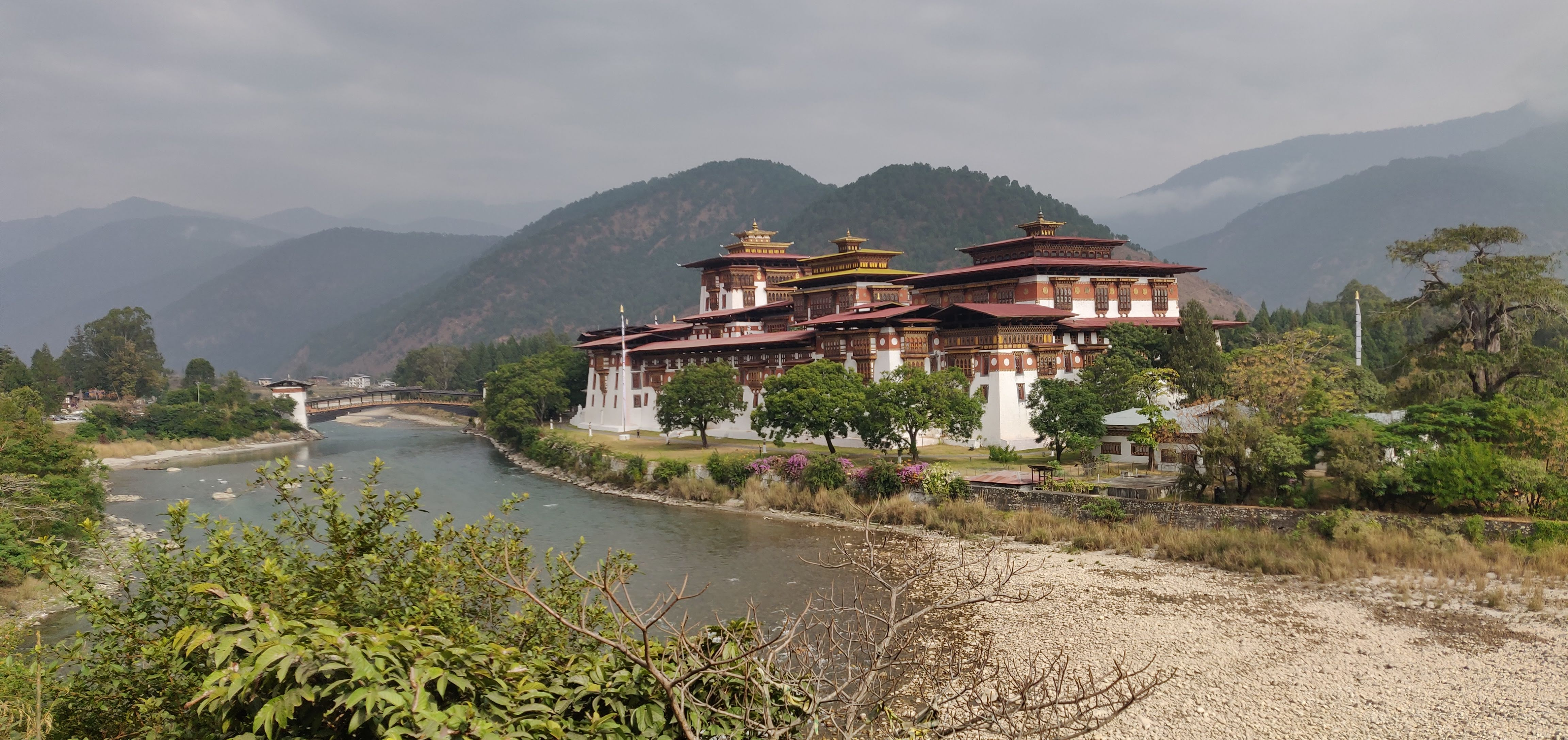 Bhutan King's Summer Palace #WPWP